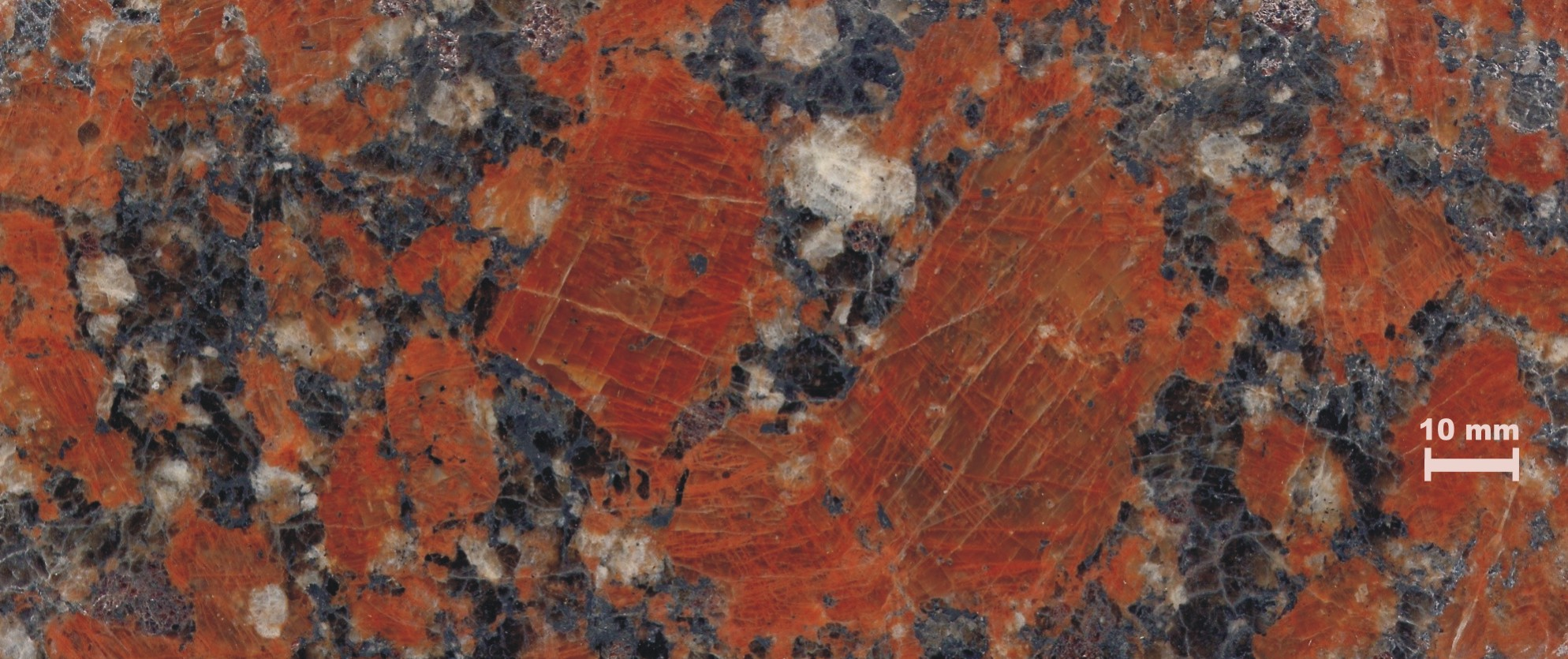 alkali granite Kapustino (near train station Kapustino, Novoukrainskyi Raion, Ukraine)